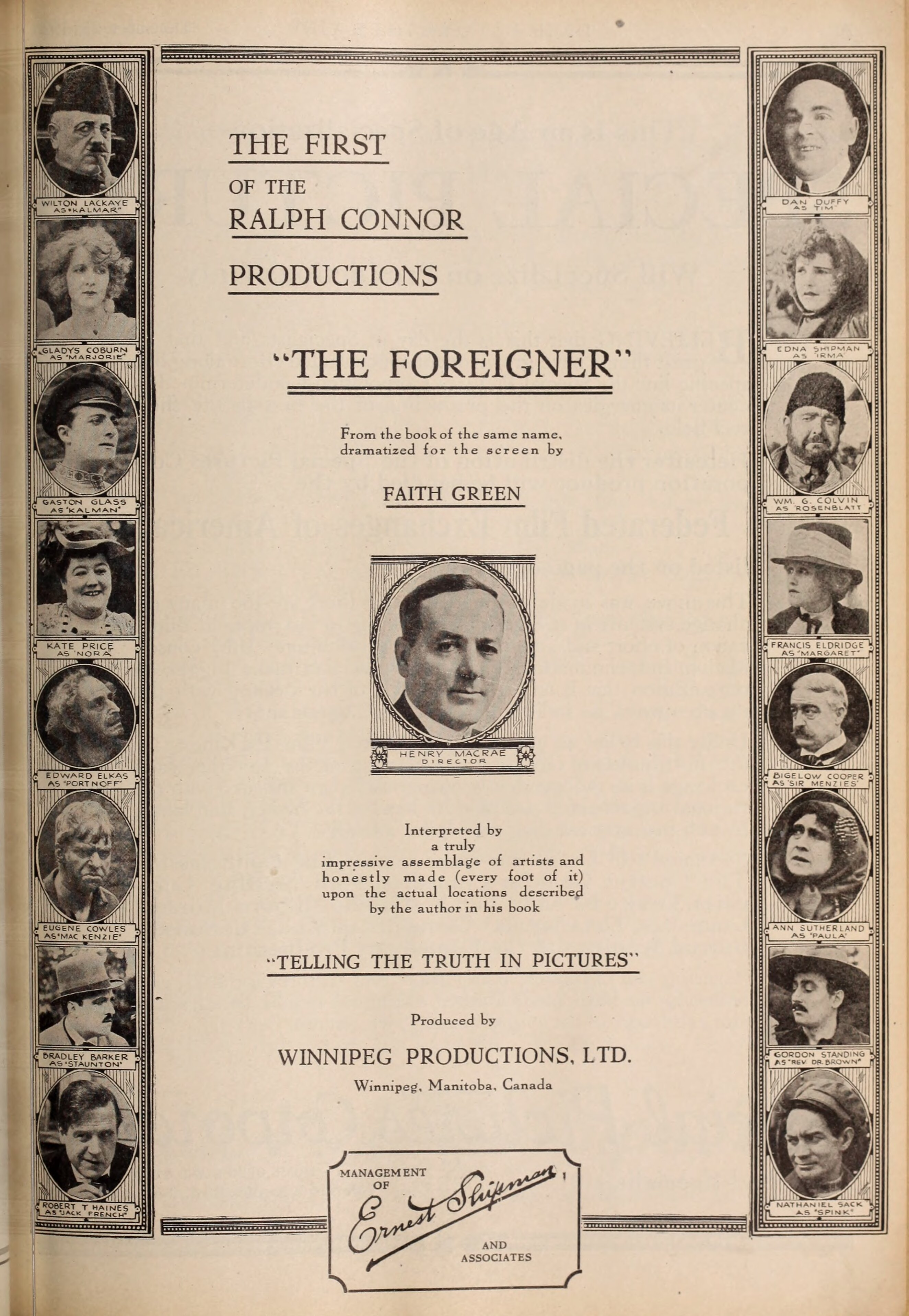 Advertisement for the Canadian film God's Crucible (1921) under its working title The Foreigner, on page 69 of the December 25, 1920 Exhibitors Herald, with director Henry MacRae, Wilton Lackaye, Gladys Coburn, Gaston Glass, Kate Price, Edward Elkas, Jules Cowles (listed as Eugene Cowles), Bradley Barker, Robert T. Haines, Dan Duffy (1884 – 1955), Edna Shipman, William Colvin (1877 – 1930), Frances Eldridge (listed as Francis Eldridge), Bigelow Cooper, Anne Sutherland (1867 – 1942) (listed as Ann Sutherland), Gordon Standing (1887 – 1927), and Nathaniel Sack (1880 – 1966).